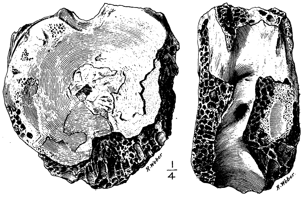 Vertebral centrum of Manospondylus gigas Cope, type, Amer. Mus. Cope Coll. 3982' One-fourth natural size. After Hatcher, 1907.